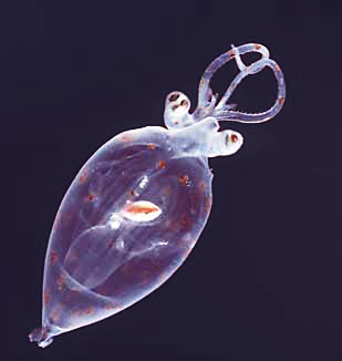 Cranchiid squid juvenile from plankton - photo Uwe Kils GFDL. larger images via (archived) Squidu.jpg Billede:Ung_blæksprutte.jpg